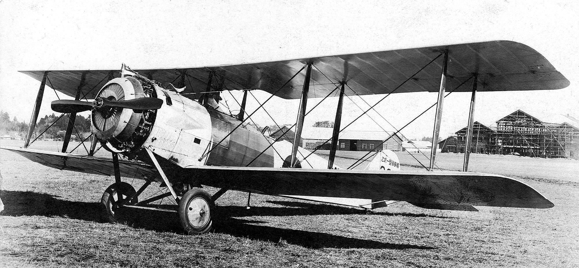 Kawasaki Army Otsu-1 Reconnaissance Aircraft (Kawasaki-Salmson 2A2)